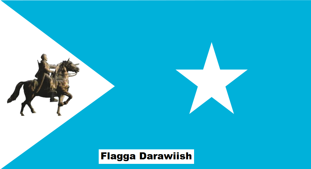 Flagga darawiish